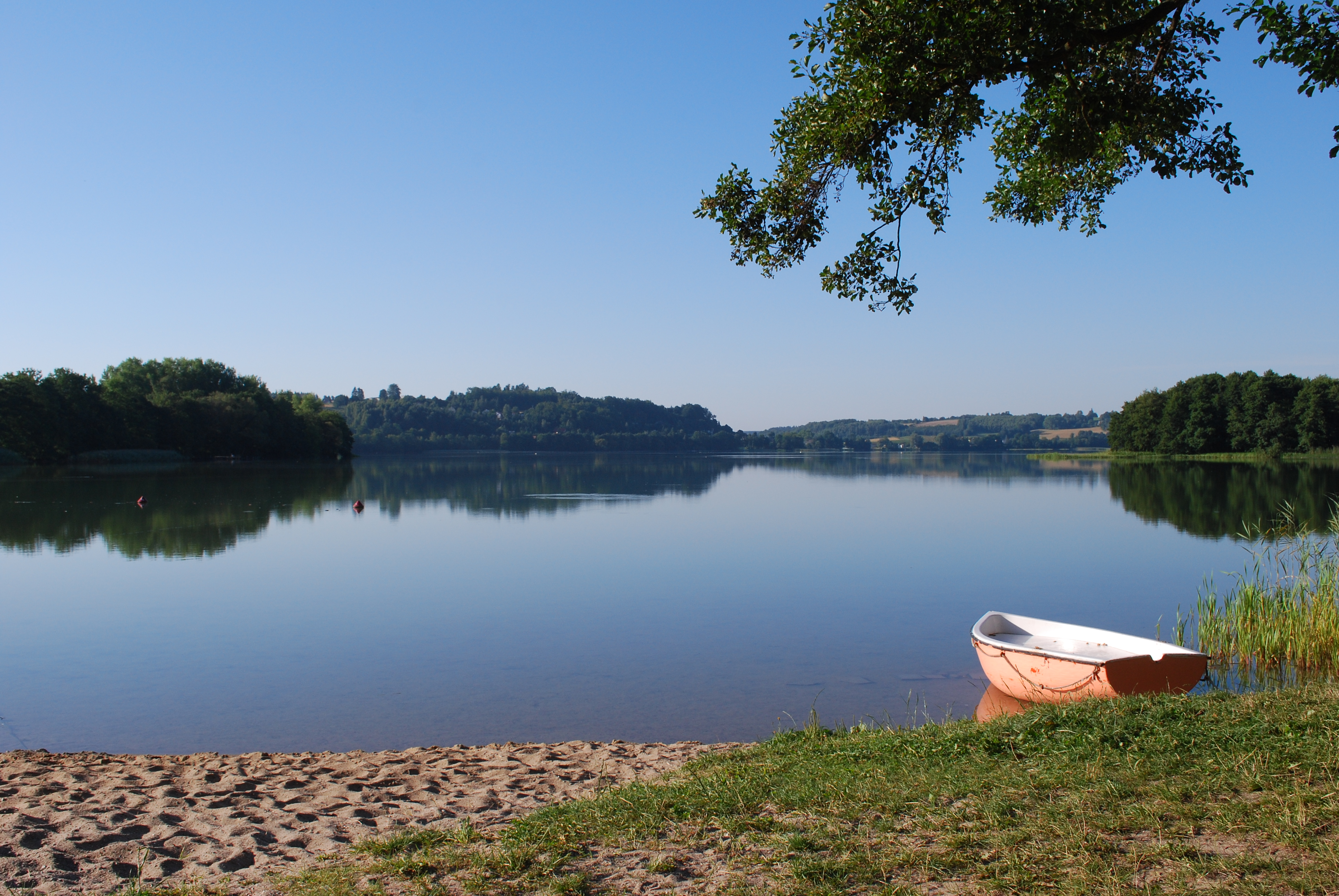 Lake Klodno in Poland - picture taken from "Wichrowe Wzgórze" in Chmielno.